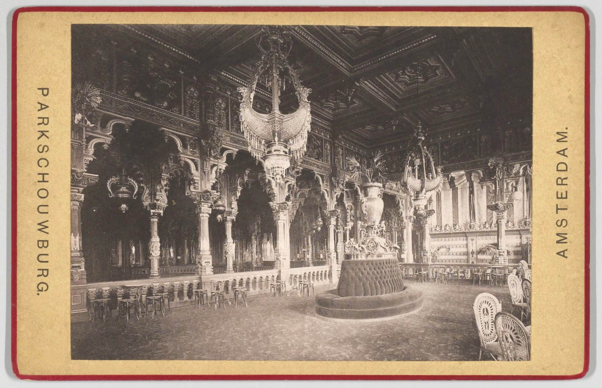 Photo of Parkschouwburg Amsterdam